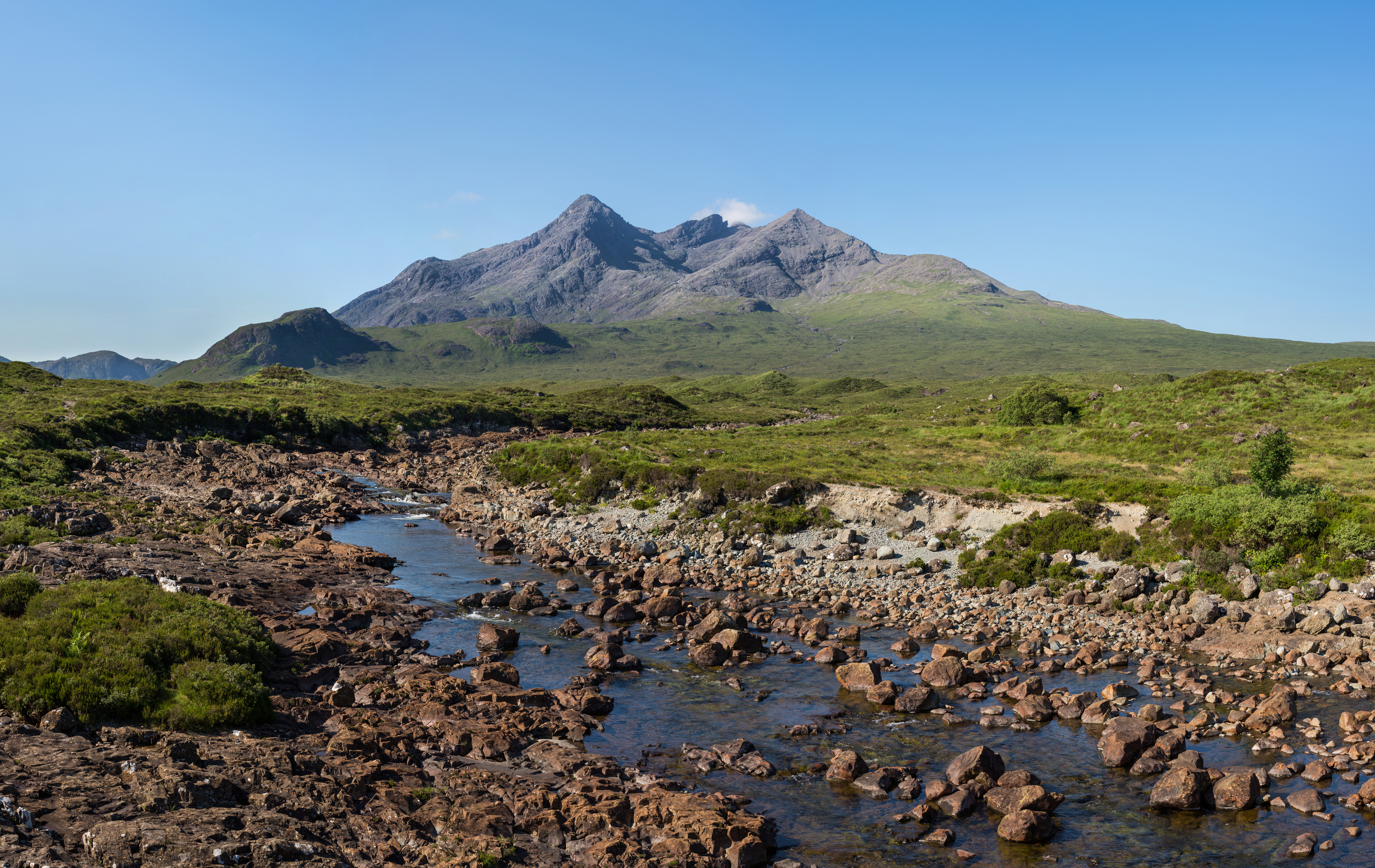 Sgùrr nan Gillean, a mountain on the Isle of Skye, as viewed from Sligachan Hotel in Scotland.